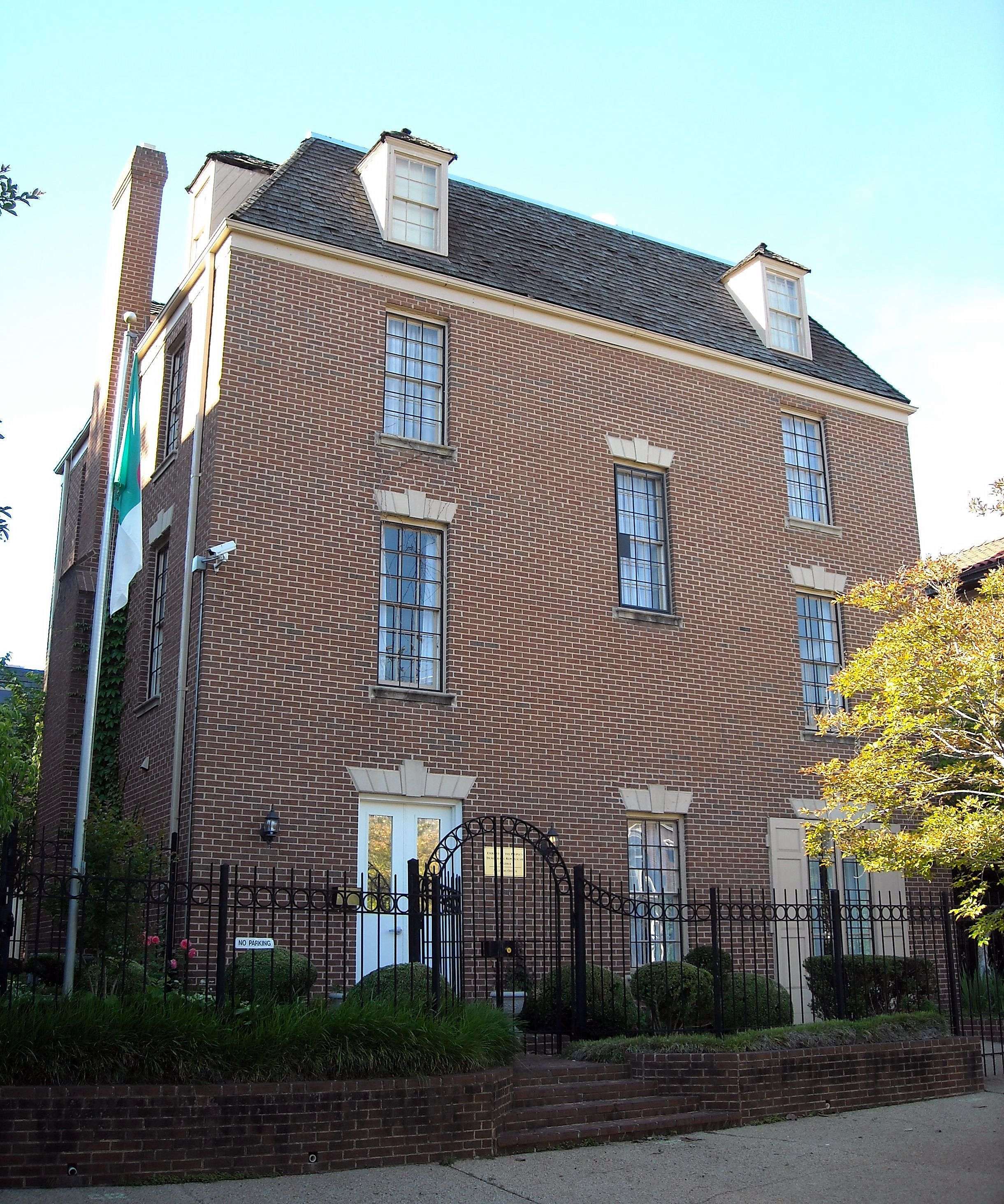 The Embassy of Algeria at 2118 Kalorama Road, NW in the Kalorama neighborhood of Washington, D.C.